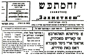 Logo of tati Zahmetkesh newspaper (1929)